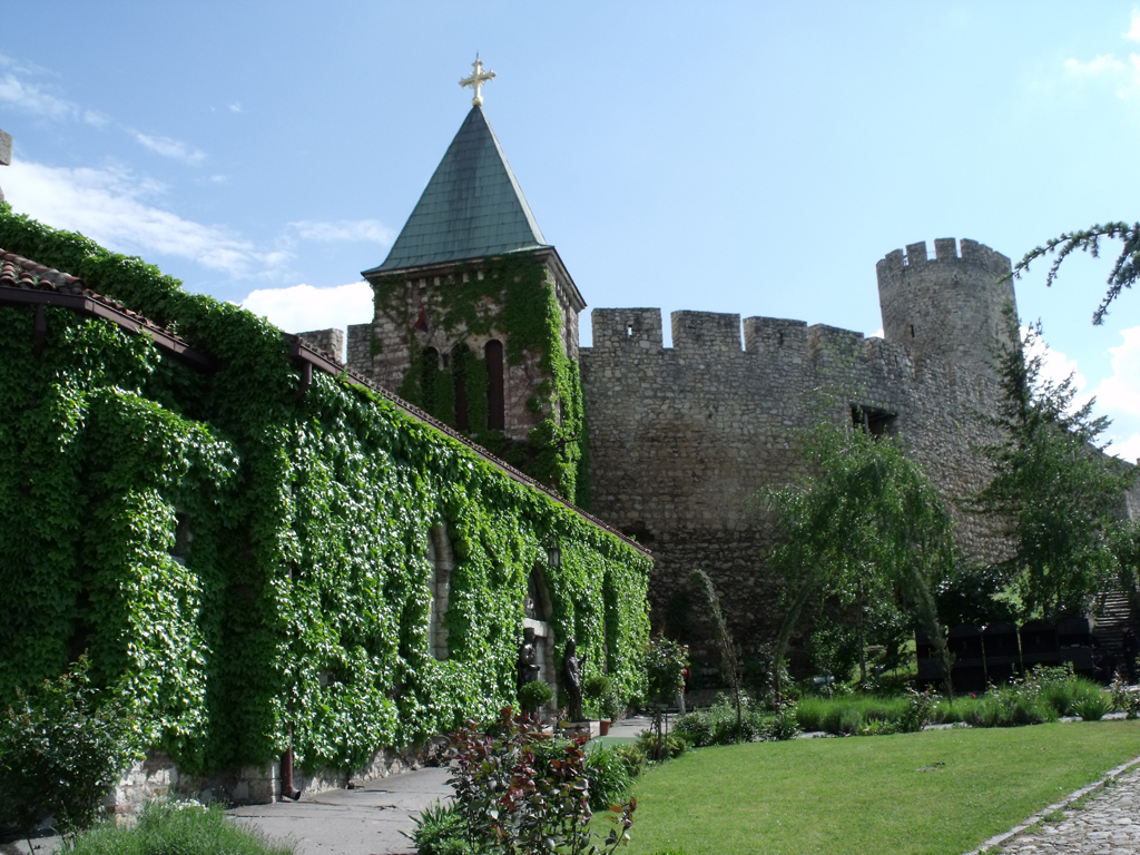 Ružica Church, Kalemegdan, Belgrade, Serbia